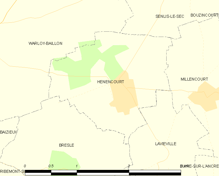 Map of French municipality Hénencourt